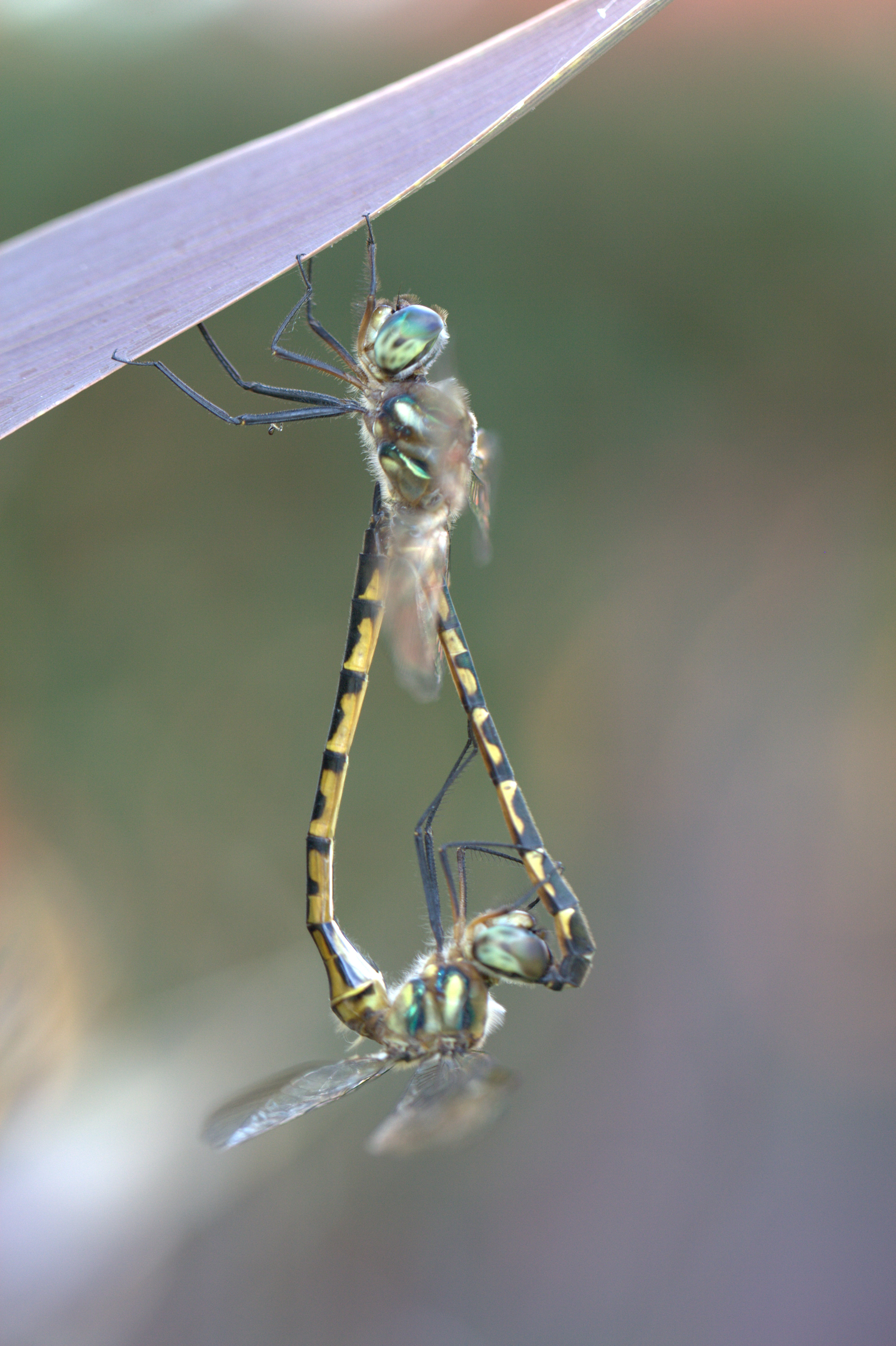 A pair of Hemicordulia australiae dragonflies mating by Lake Northam, Victoria Park, Sydney, NSW, Australia.